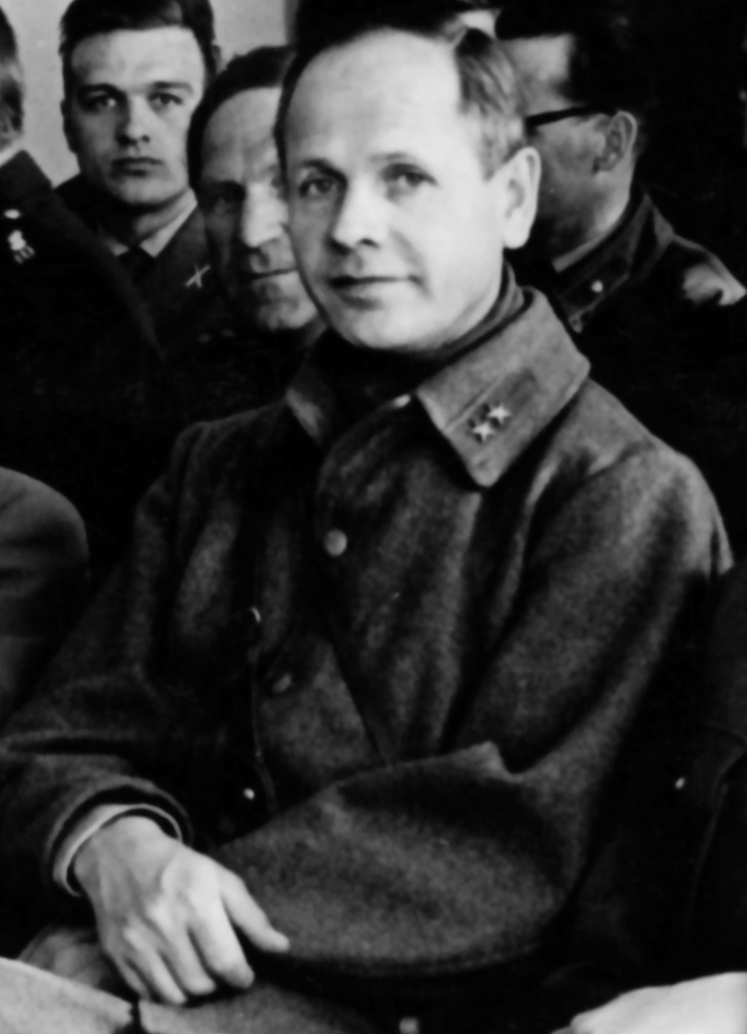 Lieutenant Colonel (later Colonel) Gerhard Hjukström during a study visit to SKF in Katrineholm in 1961. The visit was made in connection with the field exercise 17-22 April.